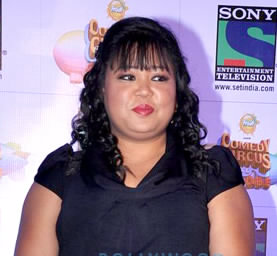 Bharti Singh at Arbaaz Khan on the sets of 'Comedy Circus Ke Ajoobe'